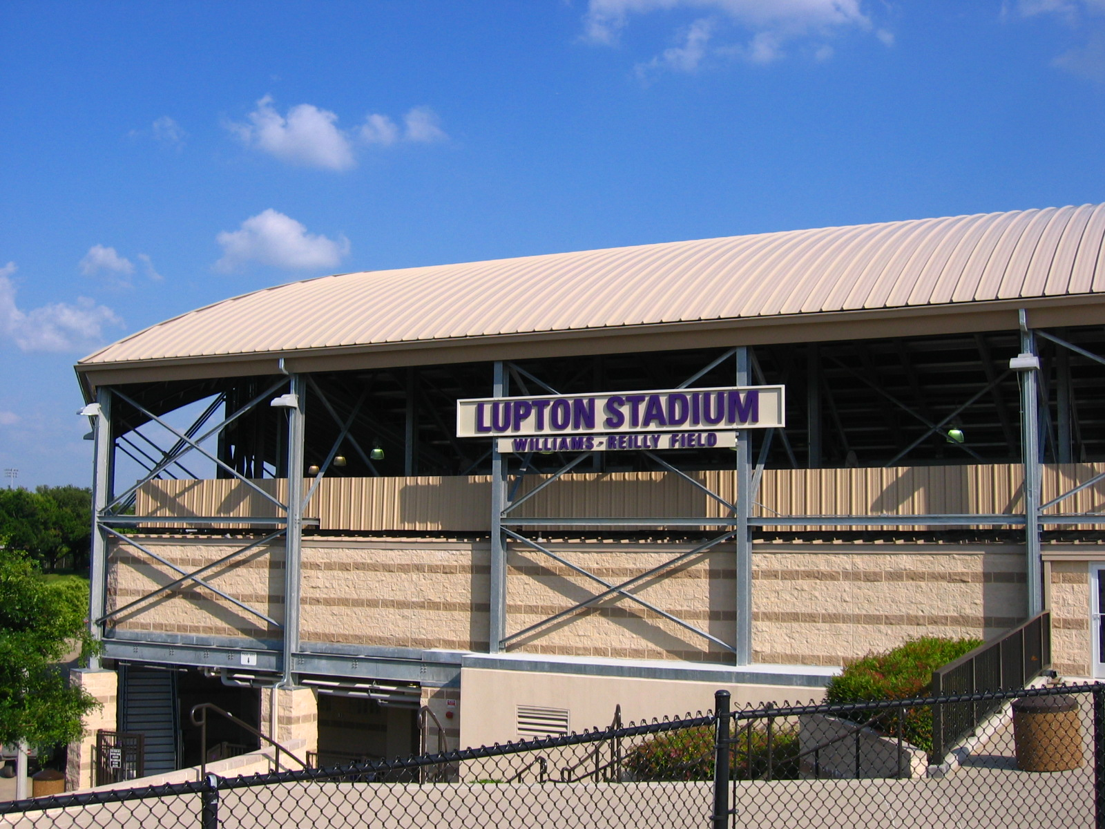 The backside of Lupton Baseball Stadium on the campus of Texas Christian University (TCU)